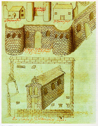 Sketch entitled "Merchant's House," showing a brick house in Williamsburg, Virginia, likely that of John Page, drawn by Franz Ludwig Michel, a native of Bern, who came to North America and was an early founder of New Bern, North Carolina. The Page family home was later excavated on the grounds of Bruton Heights Education Center in 1995.